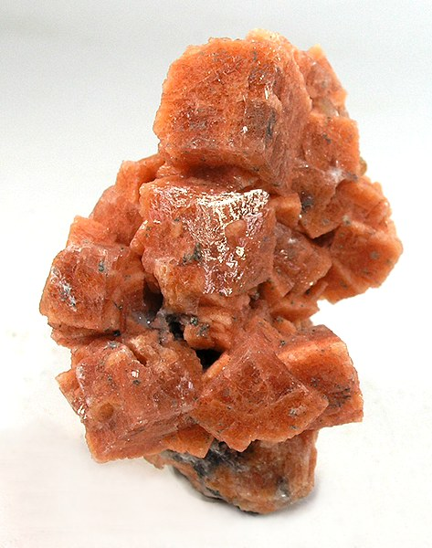 Chabazite Locality: Sarbaiskoe deposit (Sarbai; Sarbay Mine), Qostaney Oblysy (Kostanai [Kustany] Oblast'), Kazakhstan (Locality at ) Salmon pink pseudo-cubic crystals of lustrous chabazite, to 1.5 cm across. 5.5 x 3.5 x 2.8 cm